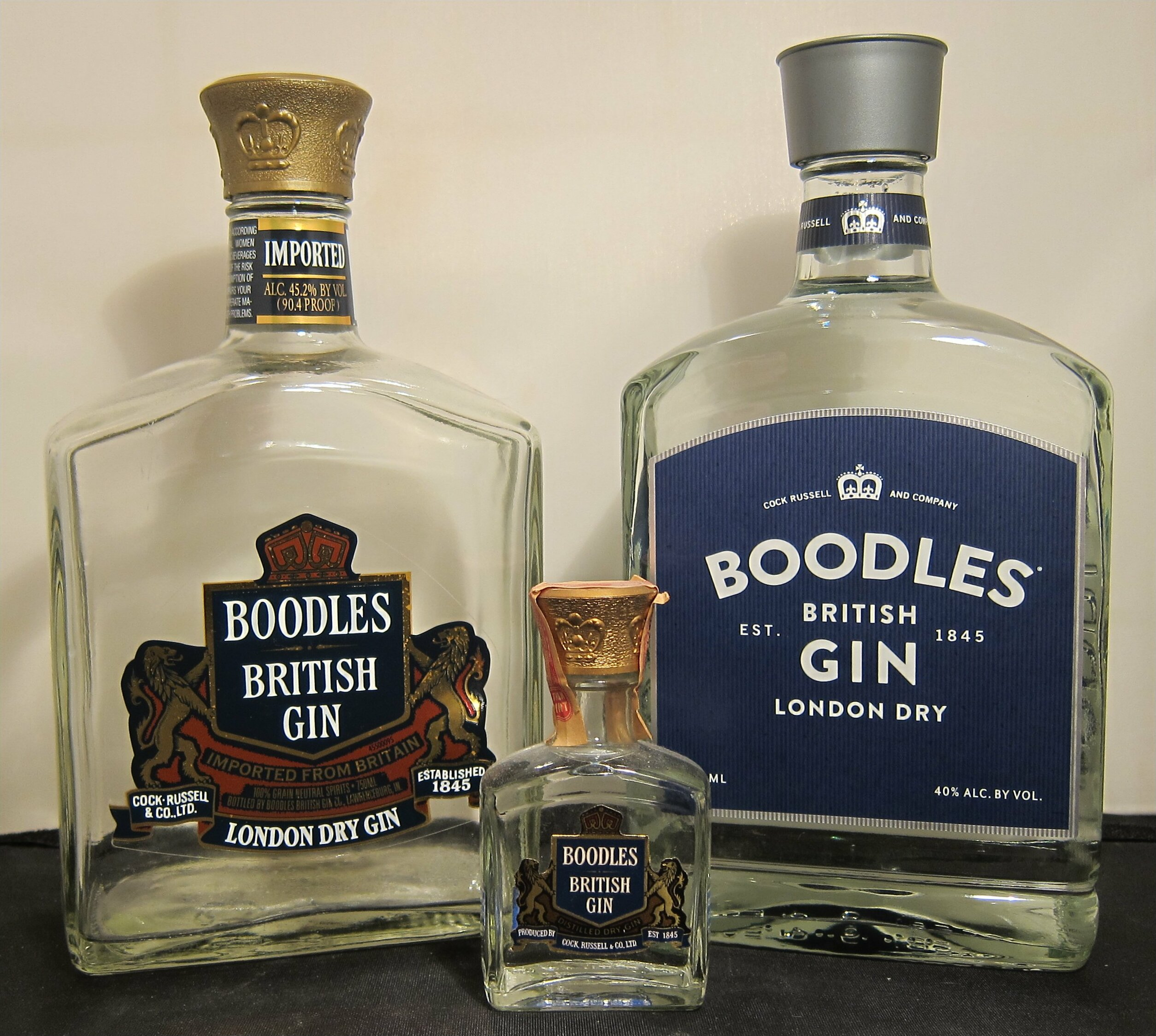 A collection of Boodles Gin bottles Past and Present